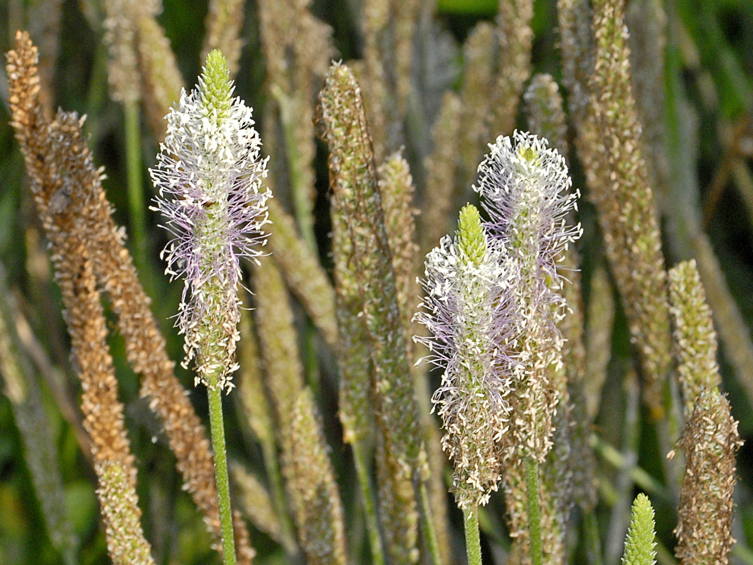 Plantago holosteum at the Civico Orto Botanico di Trieste